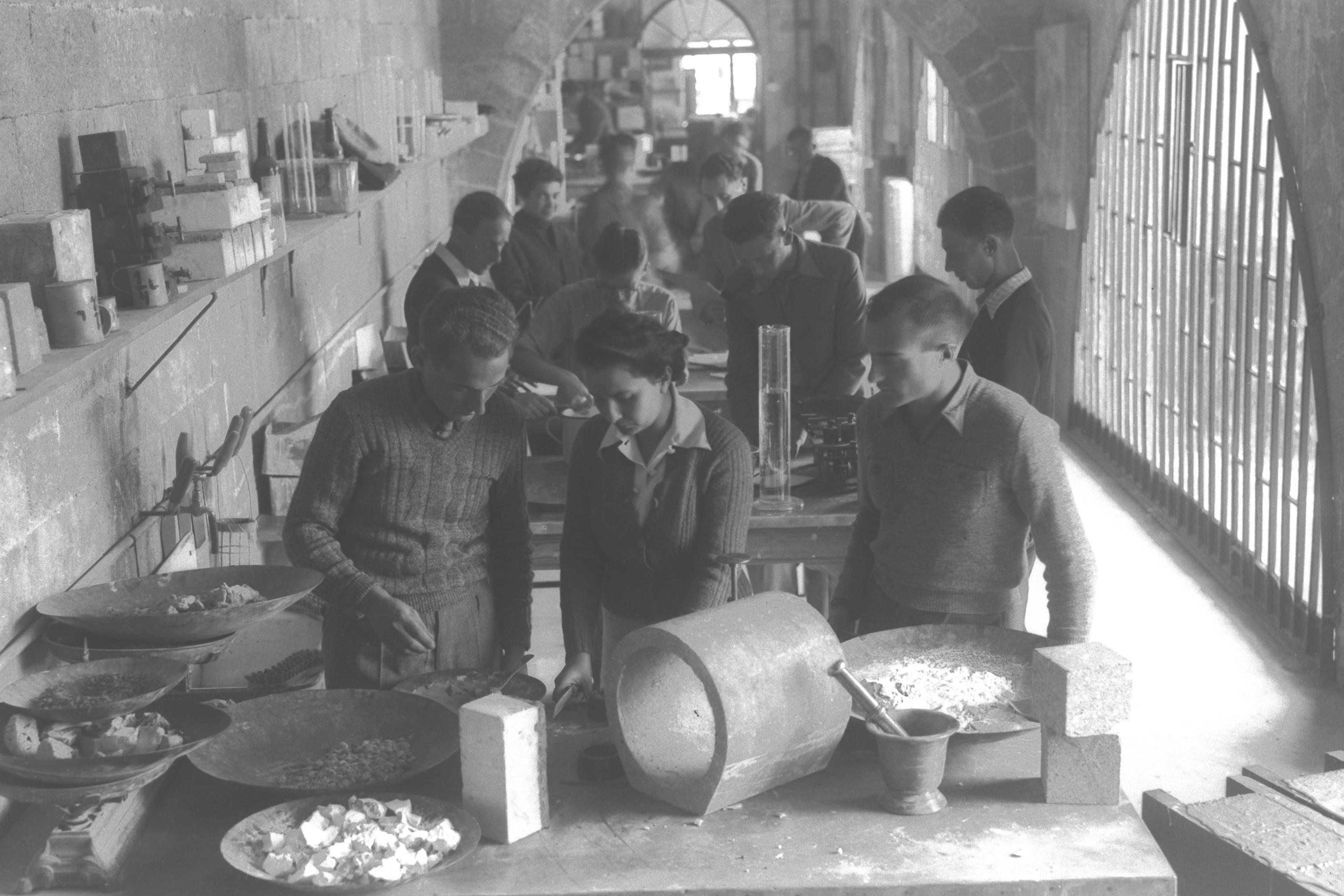 A GROUP OF STUDENTS UNDER THE DIRECTION OF ASST. RAHEL SHALON TESTING THE STRENGTH OF BUILDING MATERIALS IN THE LAB. AT THE TECHNION IN HAIFA. סטודנטים בפקולטה להנדסה בטכניון בחיפה.